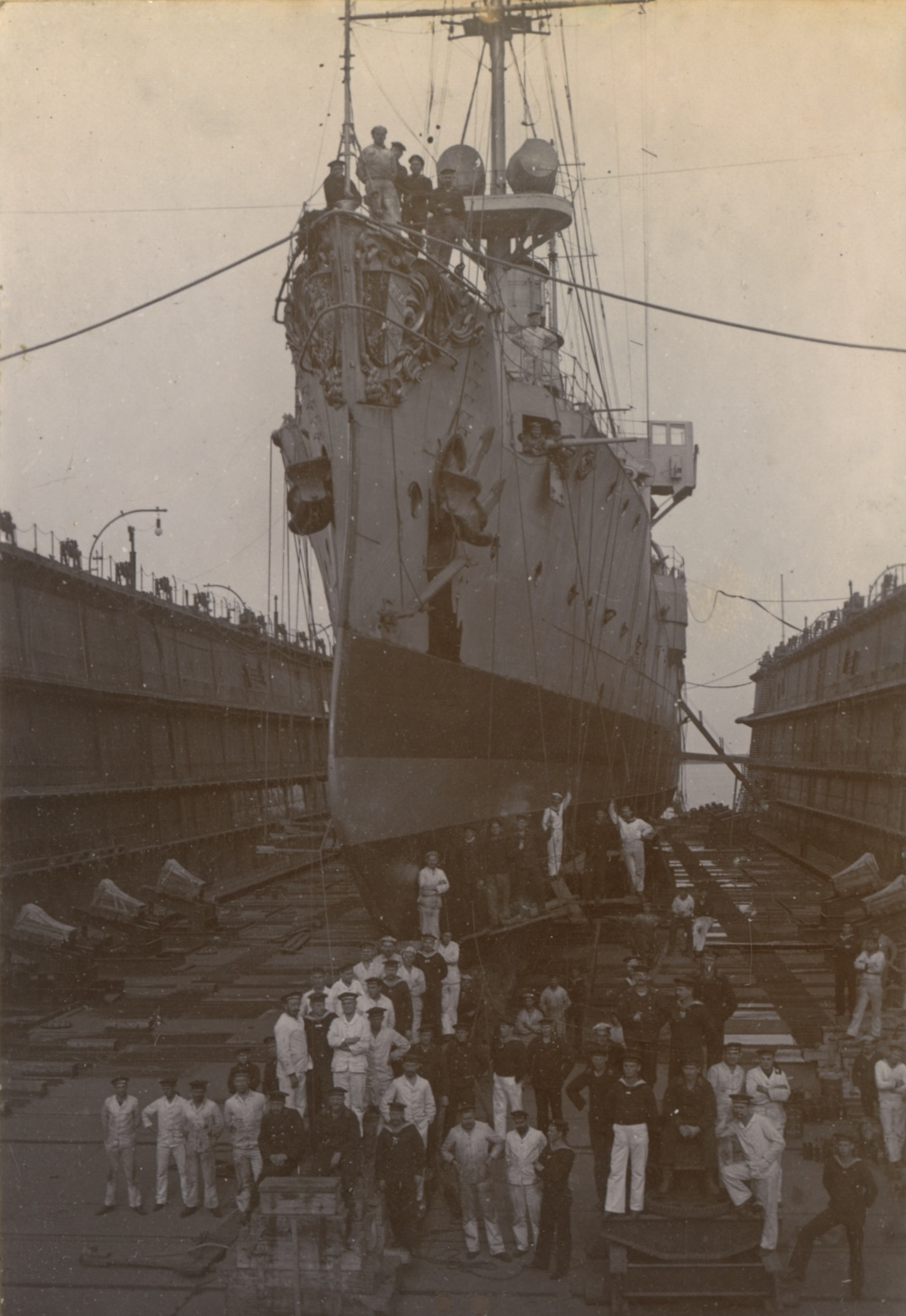 SMS Nürnberg in dock